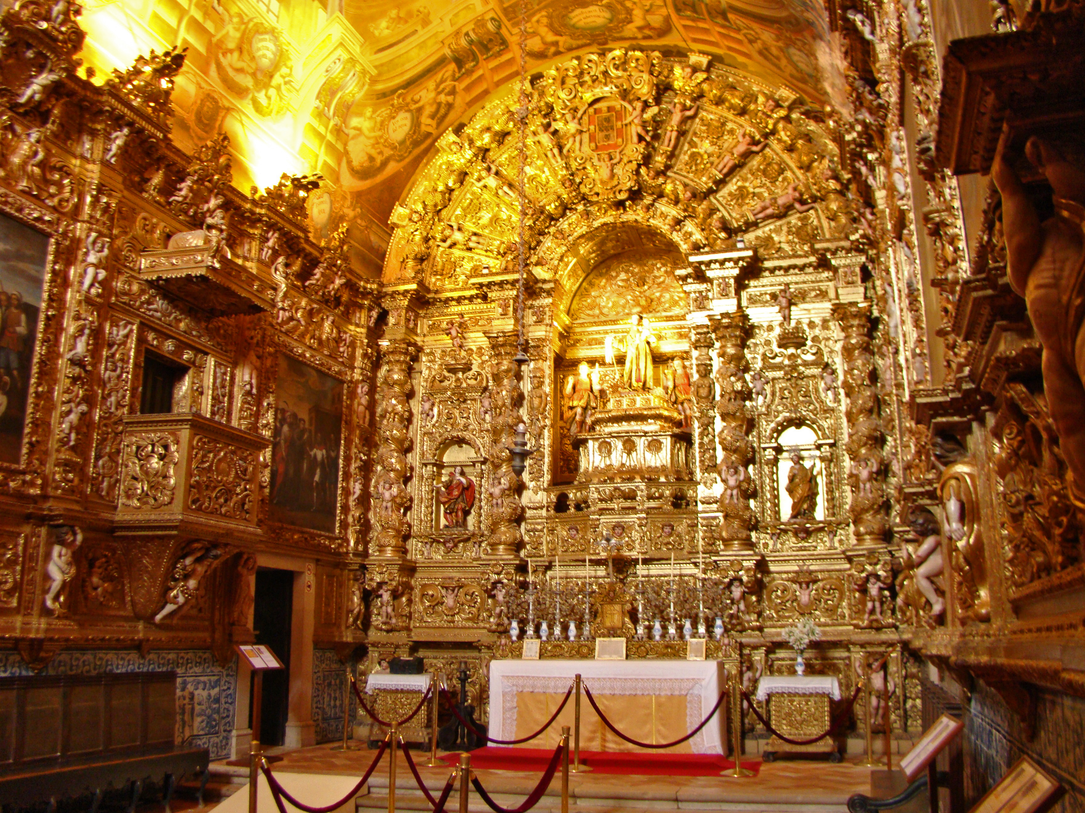 Lagos Church